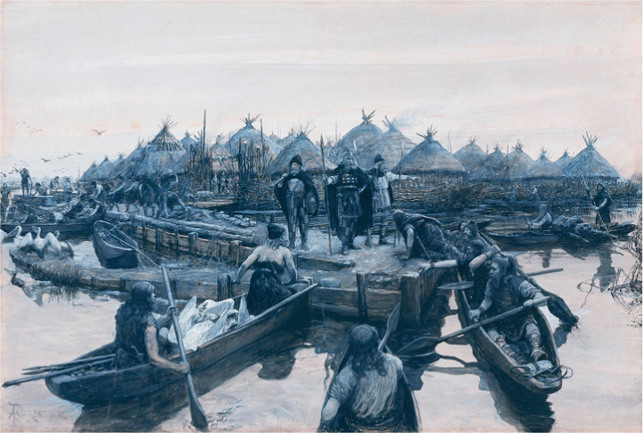 A representation by A. Forestier of the landing stage at Glastonbury Lake Village. Drawn in 1911